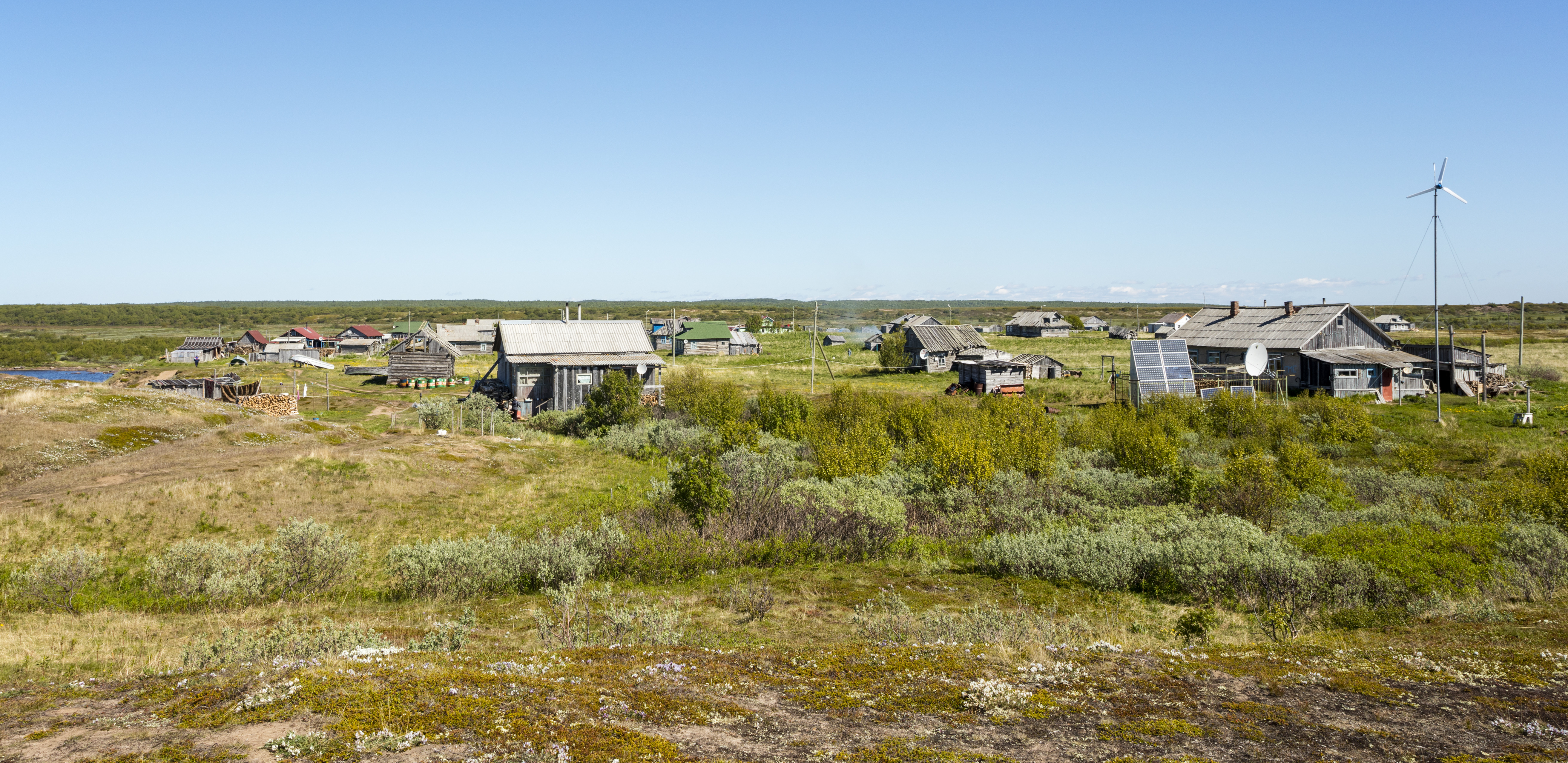 Images from the Villiage of Pyalitsa, on the Kola Peninsula, Murmansk Oblast, Russia.